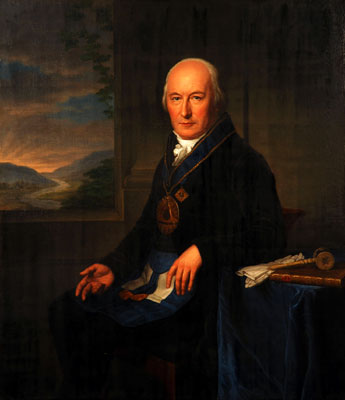 Portrait of Friedrich Ludwig Schröder (1744-1816) in freemason's outfit, painted post mortem in 1823